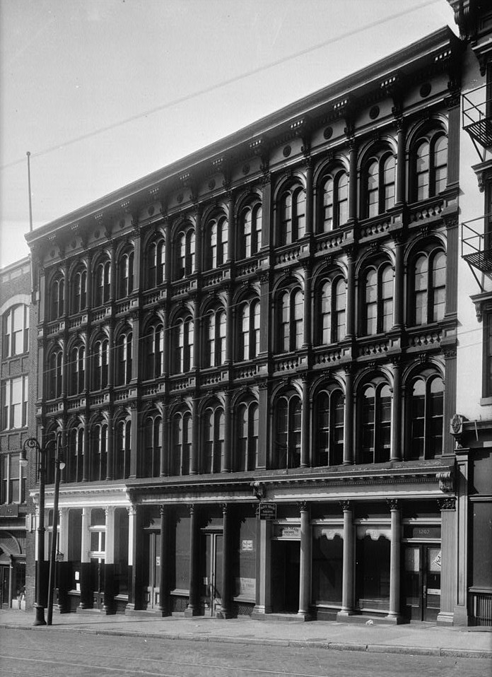 Donnan-Asher Iron Front Building, 1207-1211 East Main Street (Richmond, Independent City, Virginia) Image courtesy of Historic American Buildings Survey—HABS - cropped, HABS VA,44-RICH,66-1 This file comes from the Historic American Buildings Survey (HABS), Historic American Engineering Record (HAER) or Historic American Landscapes Survey (HALS). These are programs of the National Park Service established for the purpose of documenting historic places. Records consist of measured drawings, archival photographs, and written reports. When reusing please credit: Library of Congress, Prints & Photographs Division, VA-853 This tag does not indicate the copyright status of the attached work. A normal copyright tag is still required. See Commons:Licensing for more information. This work is in the public domain in the United States because it is a work prepared by an officer or employee of the United States Government as part of that person’s official duties under the terms of Title 17, Chapter 1, Section 105 of the US Code. See Copyright. Note: This only applies to original works of the Federal Government and not to the work of any individual U.S. state, territory, commonwealth, county, municipality, or any other subdivision. This template also does not apply to postage stamp designs published by the United States Postal Service since 1978. (See § 313.6(C)(1) of Compendium of U.S. Copyright Office Practices). It also does not apply to certain US coins; see The US Mint Terms of Use. This file has been identified as being free of known restrictions under copyright law, including all related and neighboring rights.